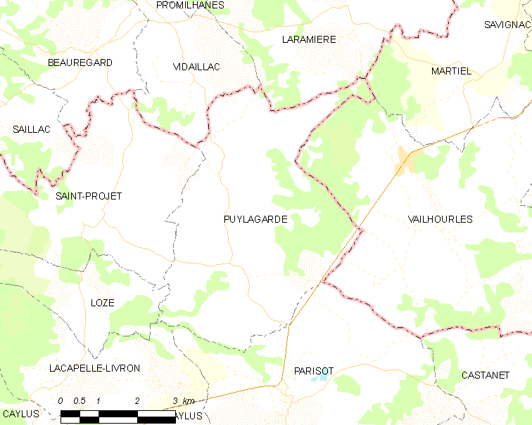 Map of French municipality Puylagarde